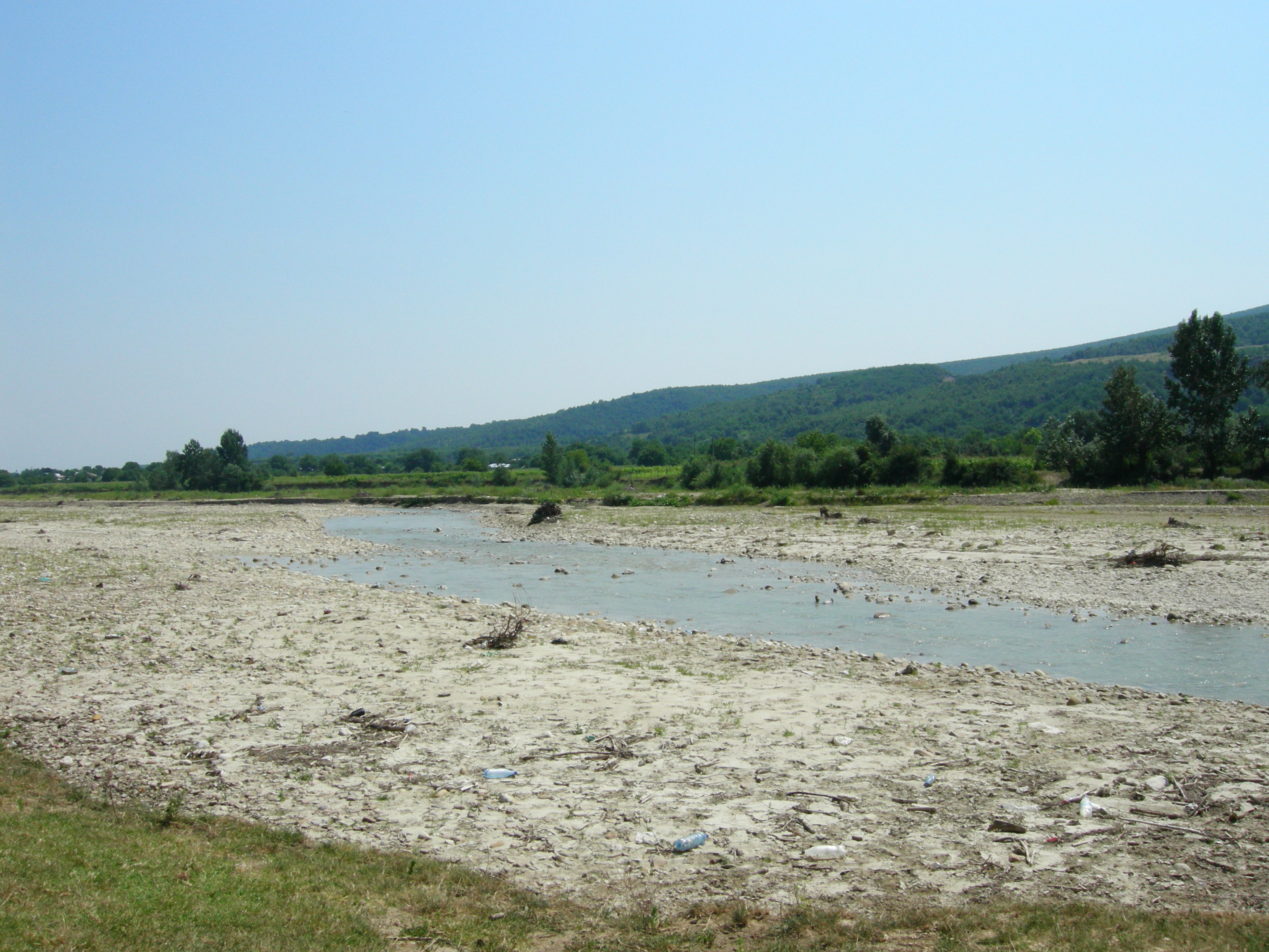 The Milcov Valley in eastern Rumania.